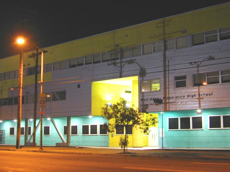 West Adams Prep. High School in Los Angeles, CA at night.